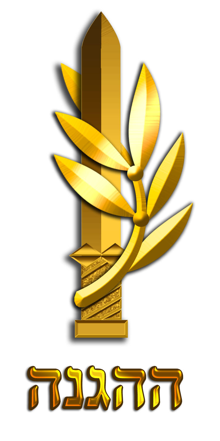 The Hagana Symbol.